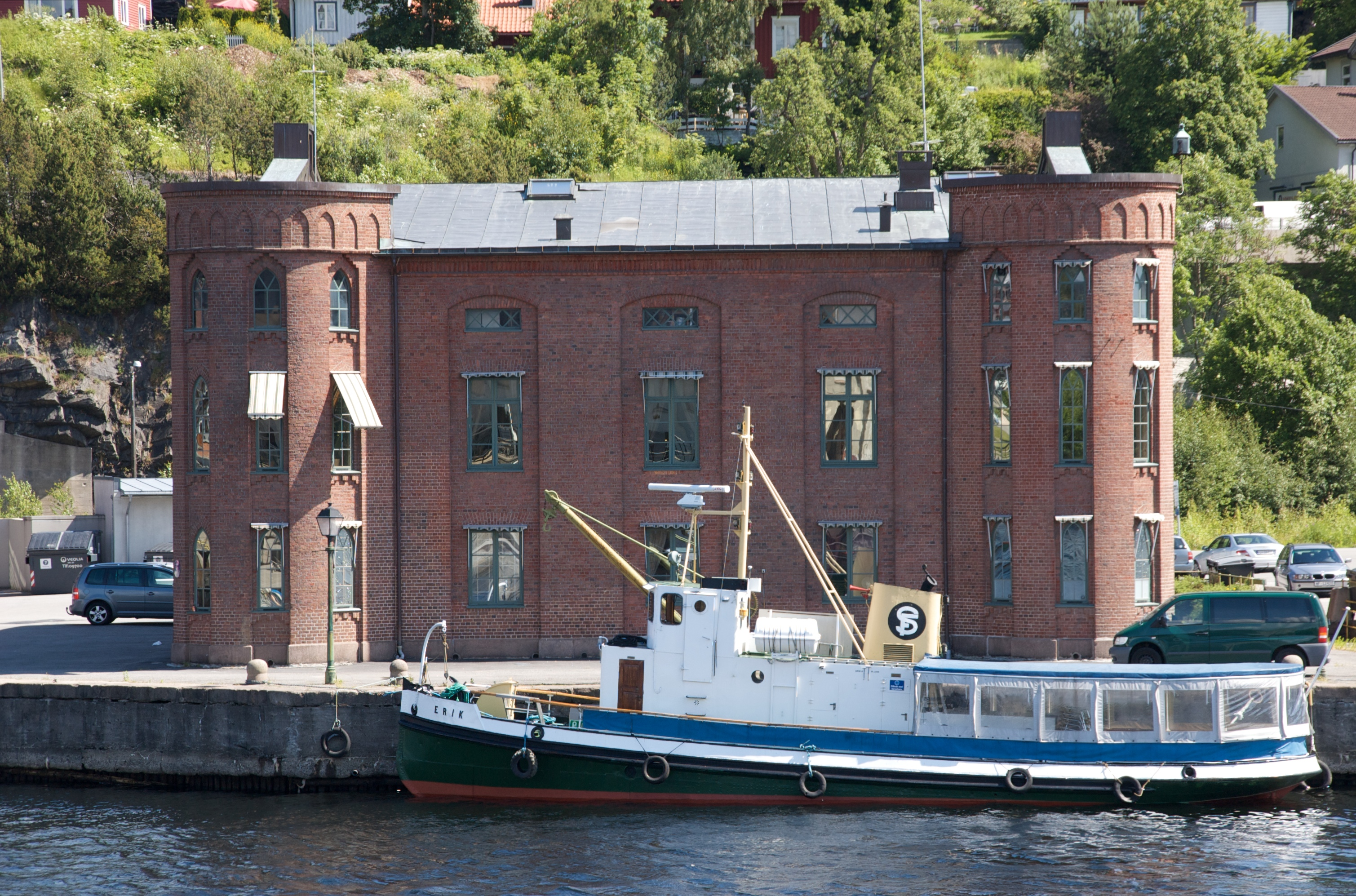 Customs building in Skien, Norway. Built in 1858-1860.